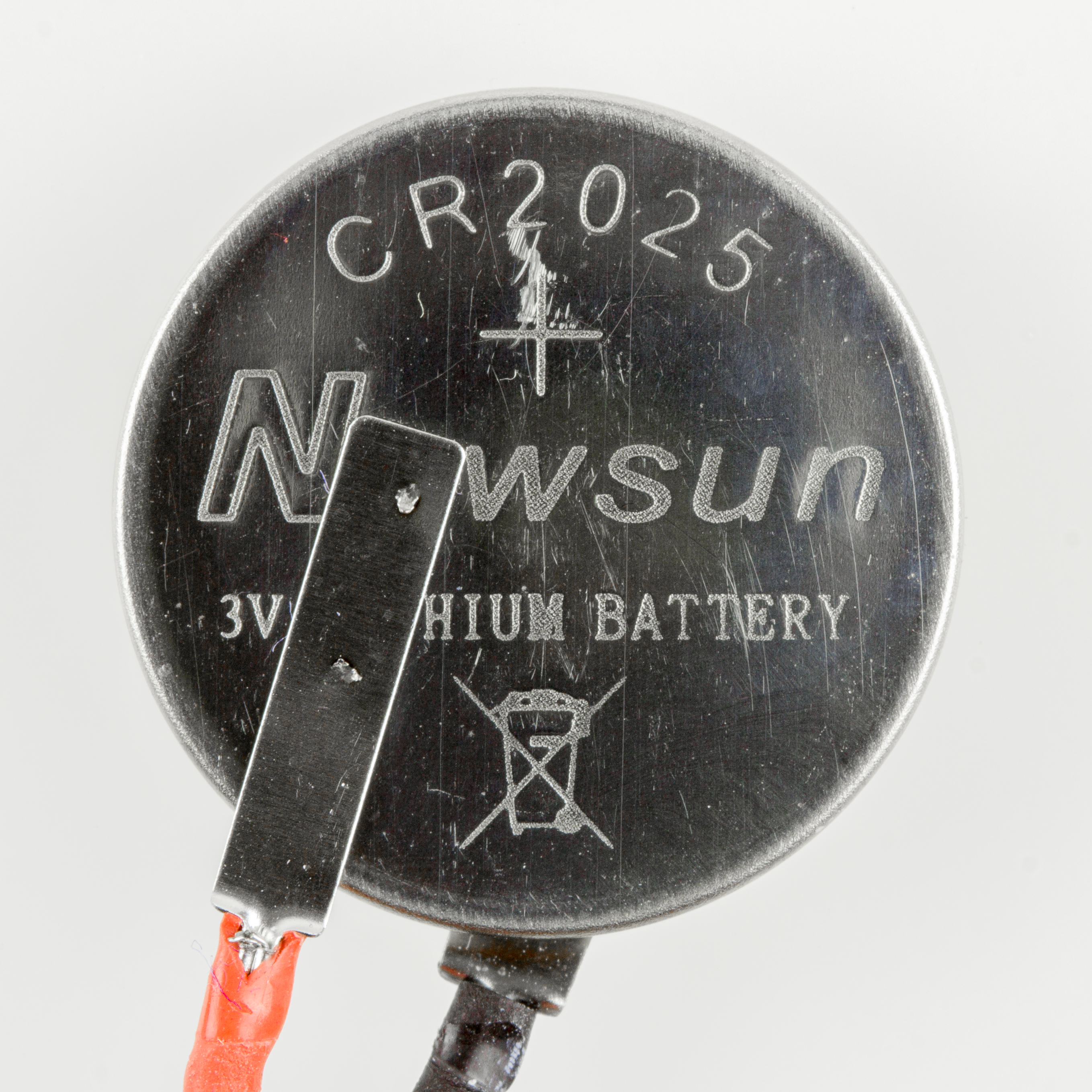 Terra Pad 1050 - Newsun CR2025 - 3V Lithium Battery, used as backup battery